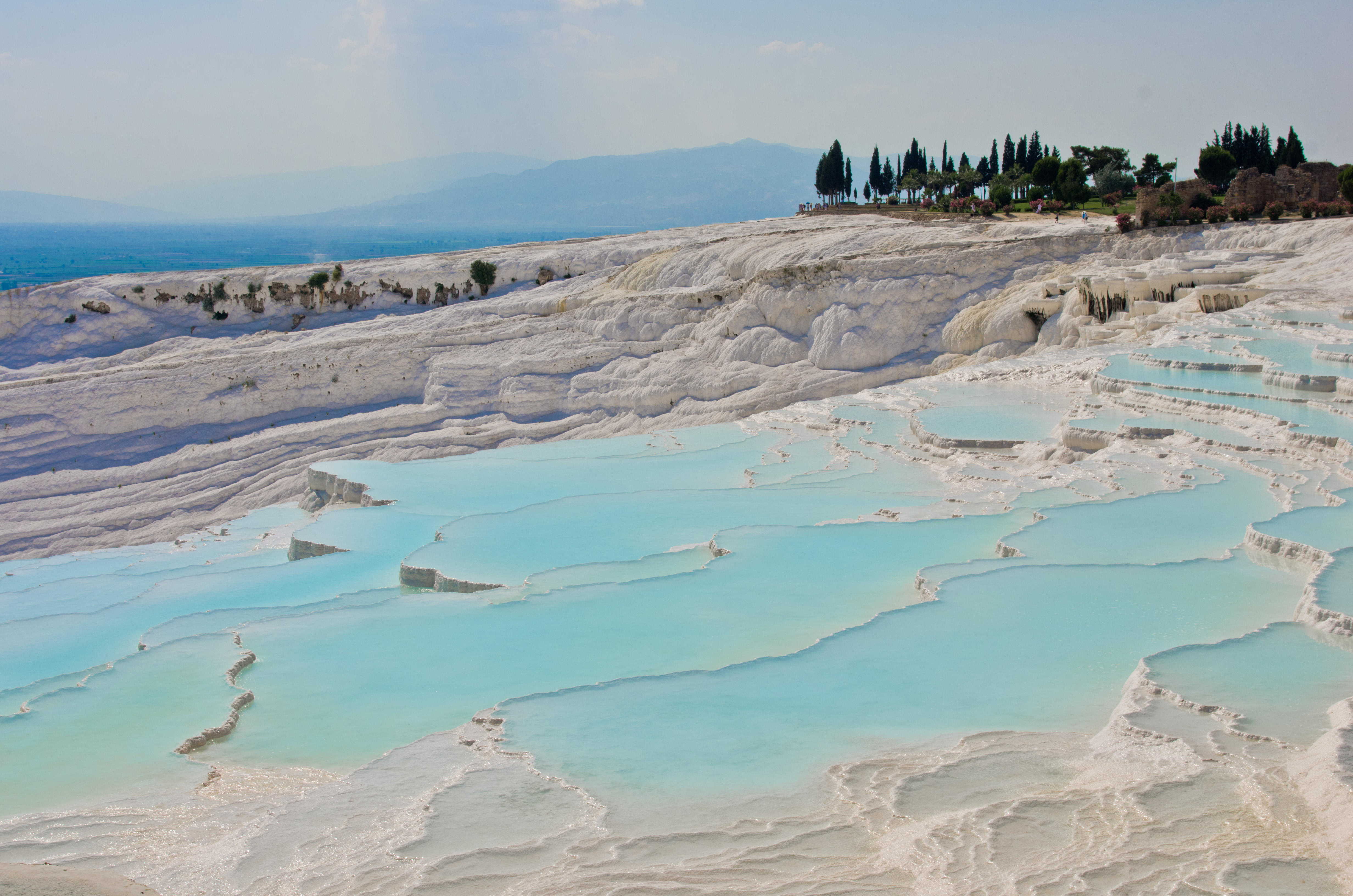 Pamukkale